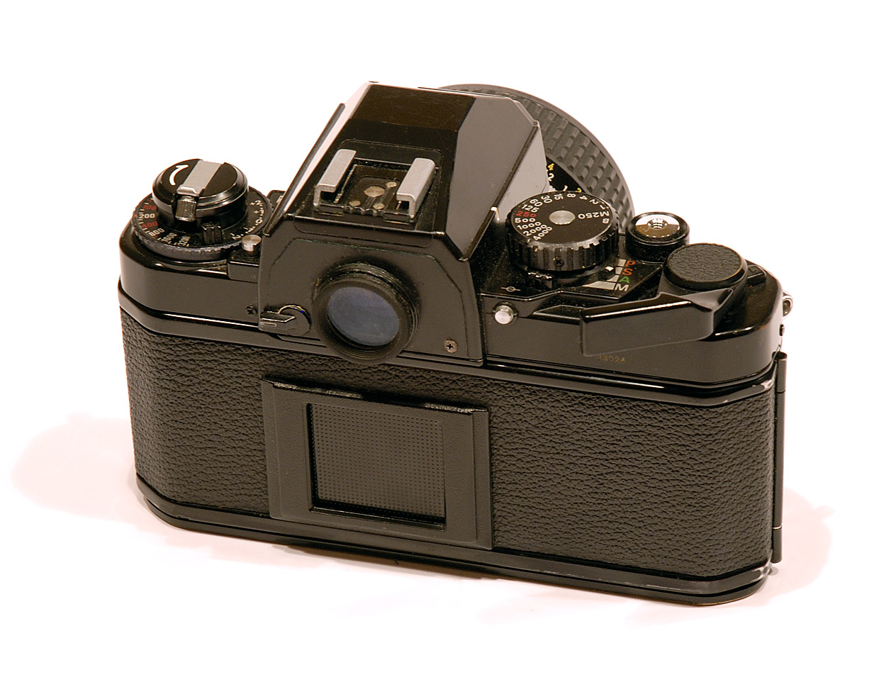 back view of Nikon FA camera with lens Nikkor 50 mm, f 1:1.2